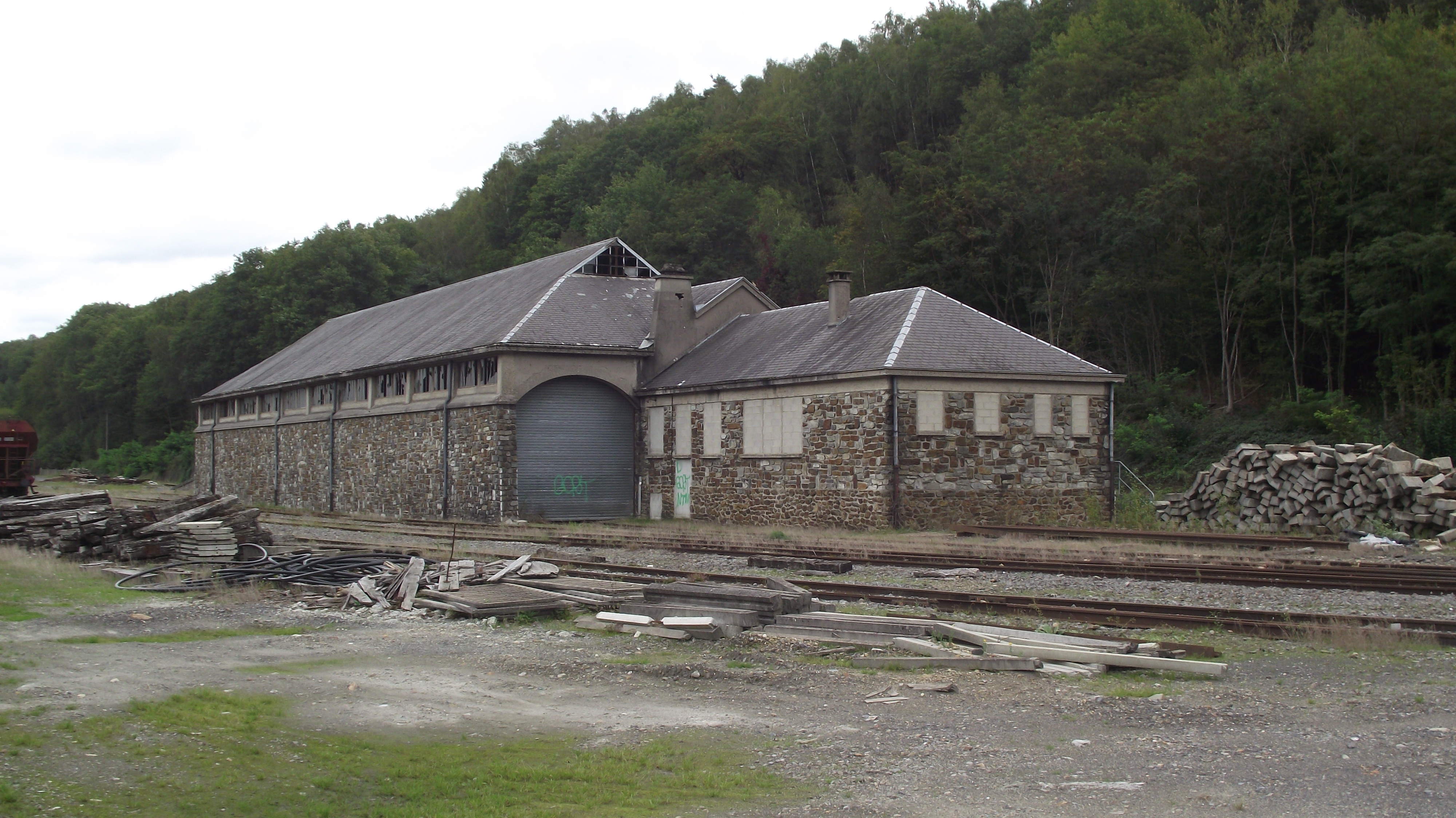 View of ex-depot CFDA building.